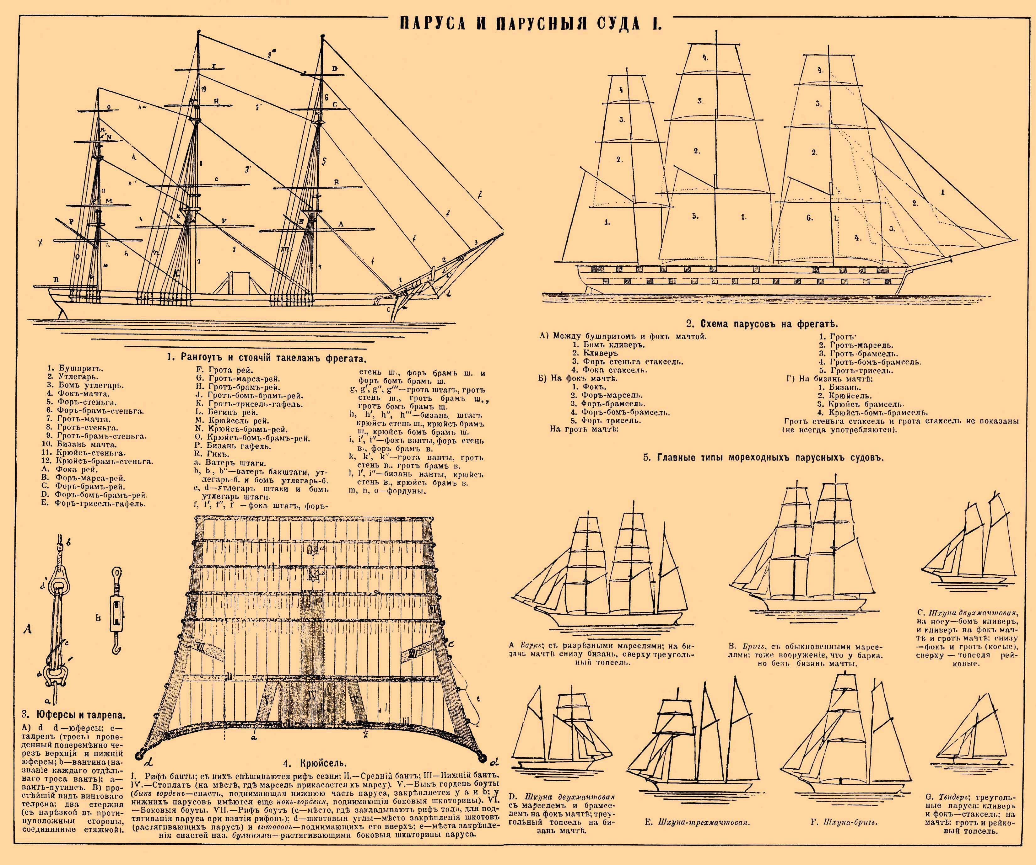 Illustration from Brockhaus and Efron Encyclopedic Dictionary (1890—1907)